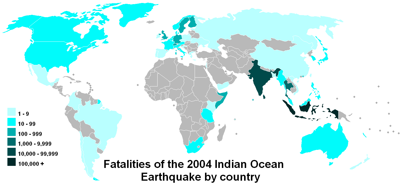 Number of deaths by country of citizenship as listed on the Wikipedia article Countries affected by the 2004 Indian Ocean earthquake on 3 December 2008, quantified through a logarithmic scale.